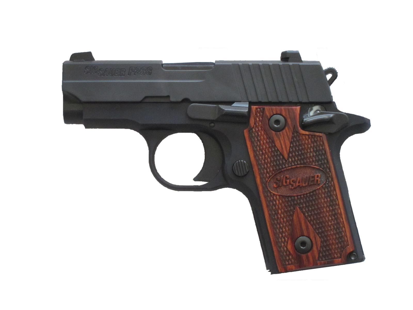 A P238 pistol chambered for .380 ACP by Sig Sauer